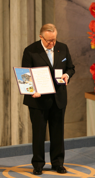 Nobel Peace Prize 2008, Martti Ahtisaari